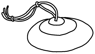 Sōhachibon (Japanese percussion instrument like Cymbals)